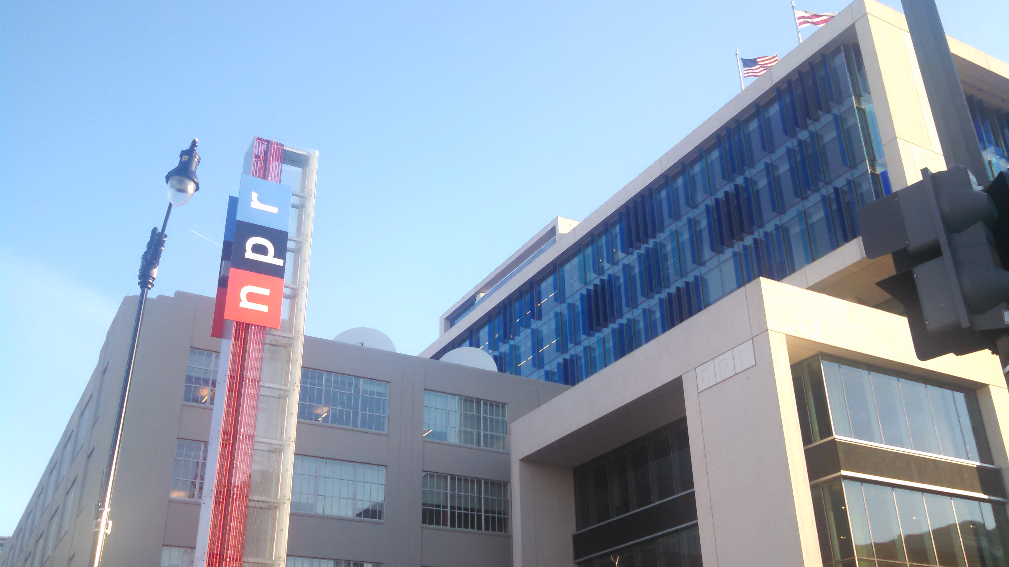 NPR HQ taken this morning from the corner of North Capitol Street and L Street Northeast, Washington, DC, USA